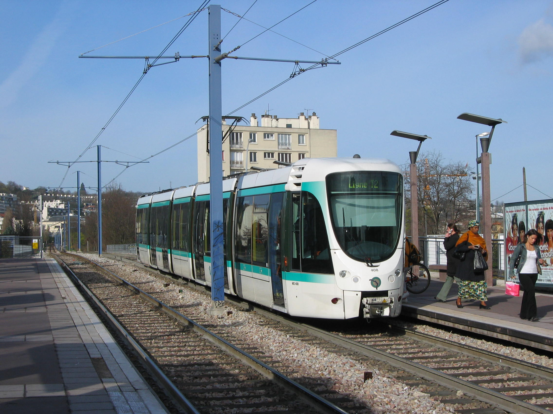 T2 tramway line in Issy-les-Moulineaux, near Paris Picture : Gérard Delafond